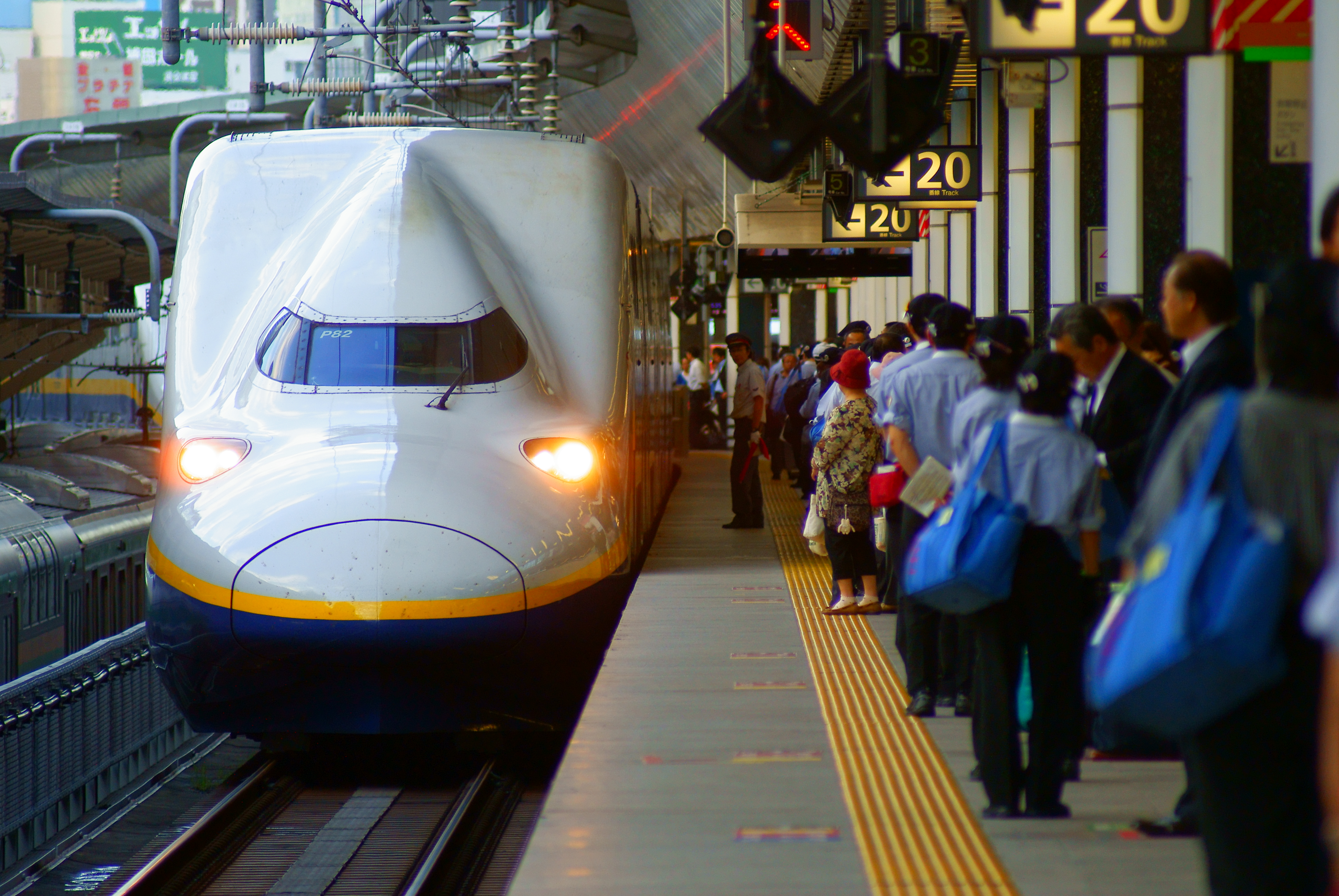 The "Max-toki" 333 be coming in to the track 20 of Tokyo station with cleaners and passengers wating for it.